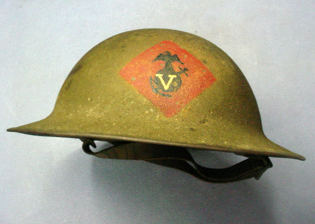 US Marine Corps M1917 Brodie pattern helmet